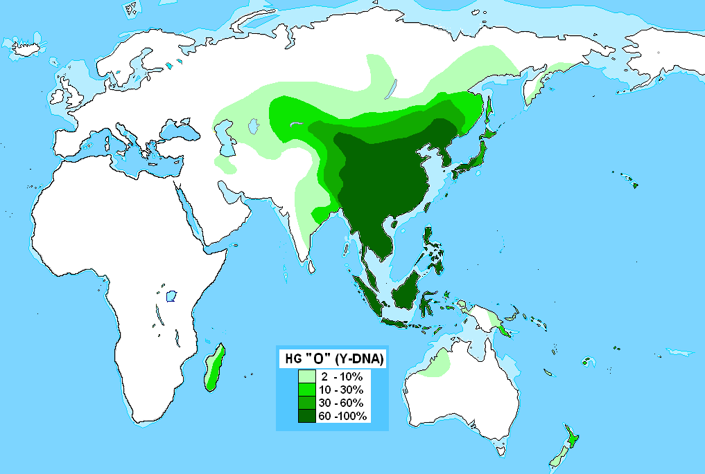 Edited map to reflect 62/96 = 65% O-M175 total in Barito River basin (incl. Banjarmasin) of southeastern Borneo as per Capelli et al. 2001, Kayser et al. 2003 (cf. Melton et al. 1995 in regard to geographical origin of "Southern Borneo" sample), and Hurles et al. 2005.